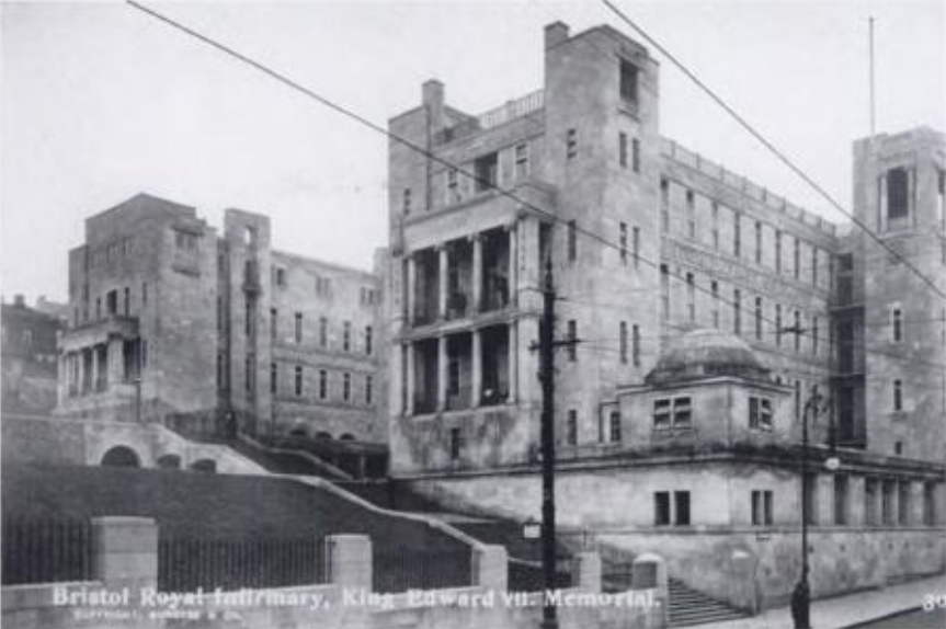 The King Edward VII memorial extension to the Bristol Royal Infirmary, by Charles Holden, circa 1912